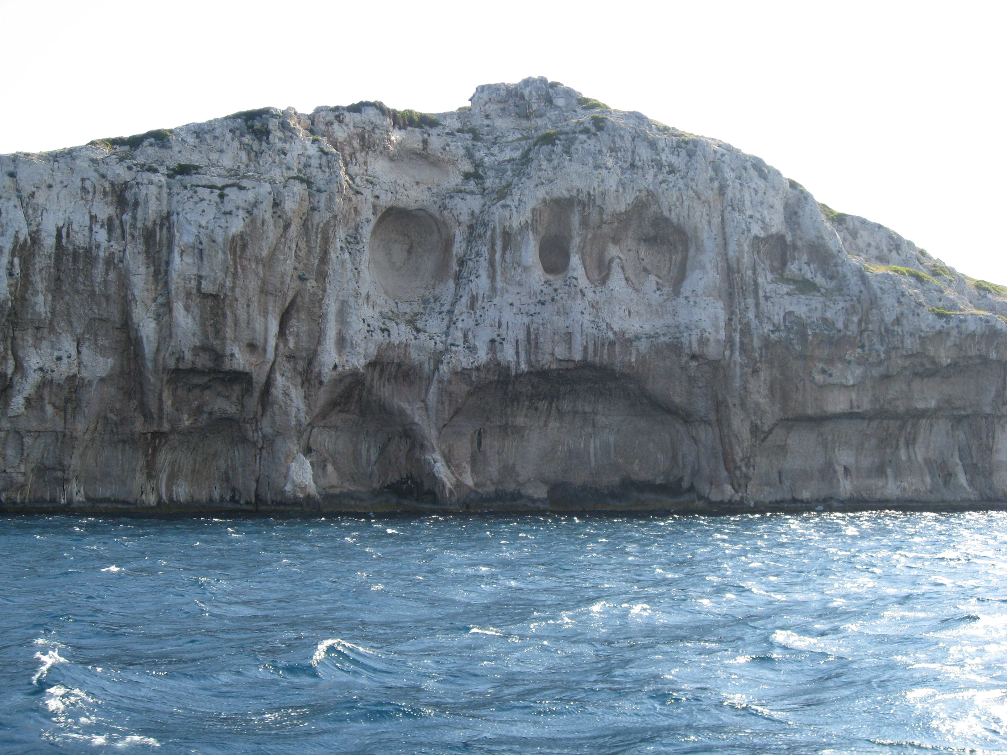 Balun island, close-up on the southwest side, Kornati.